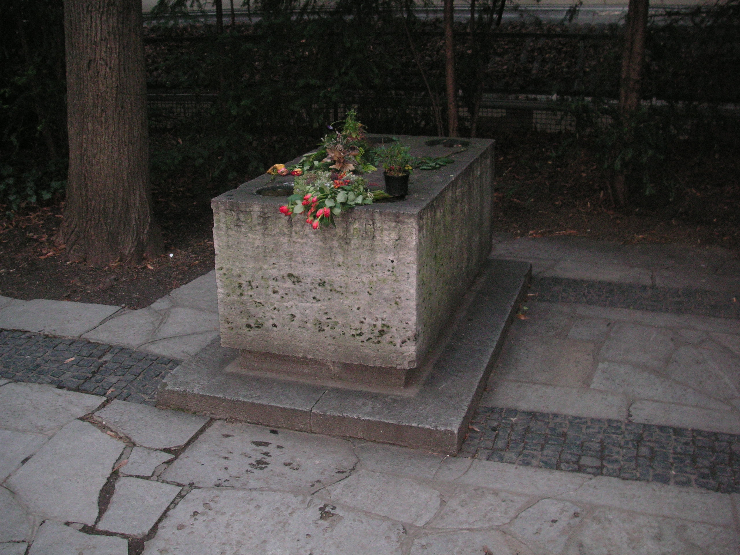 Grave of Walther von der Vogelweide at the Neumünster-Cloister in Würzburg, Germany.